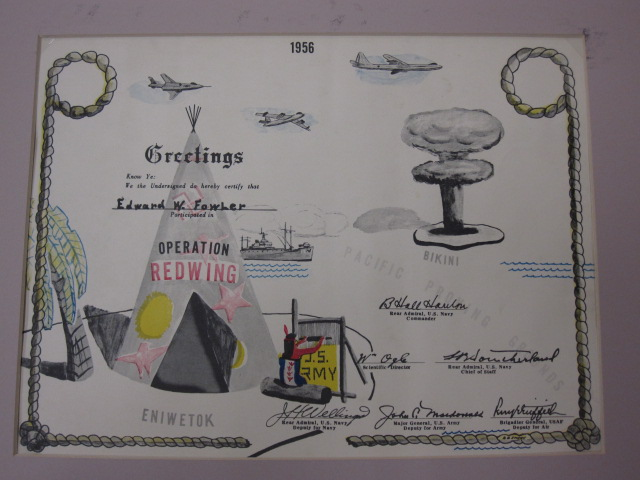 Accession: 2011-173-106 Certificate Operation Redwing 9" H x 12" W Participation certificate for Operation Redwing, 1956. The certificate was awarded to Edward W. Fowler. Operation Redwing was the name given to the second series of nuclear weapons tested on Eniwetok and Bikini Atolls. The tests ran from May through July 1956. Collection of Curator Branch, Naval History and Heritage Command